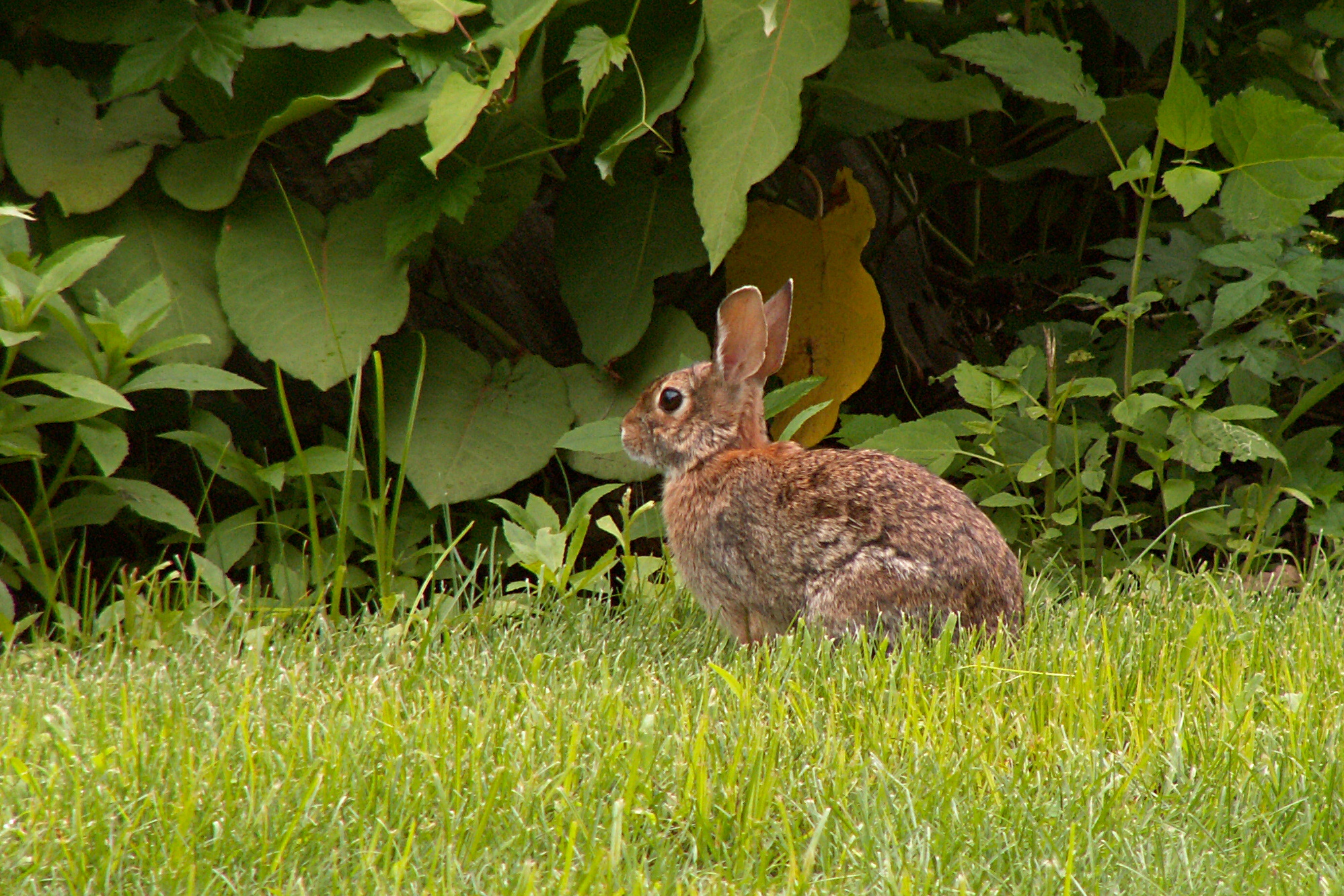 Eastern Cottontail (Sylvilagus floridanus) grazing on Herr’s Island, Pittsburgh